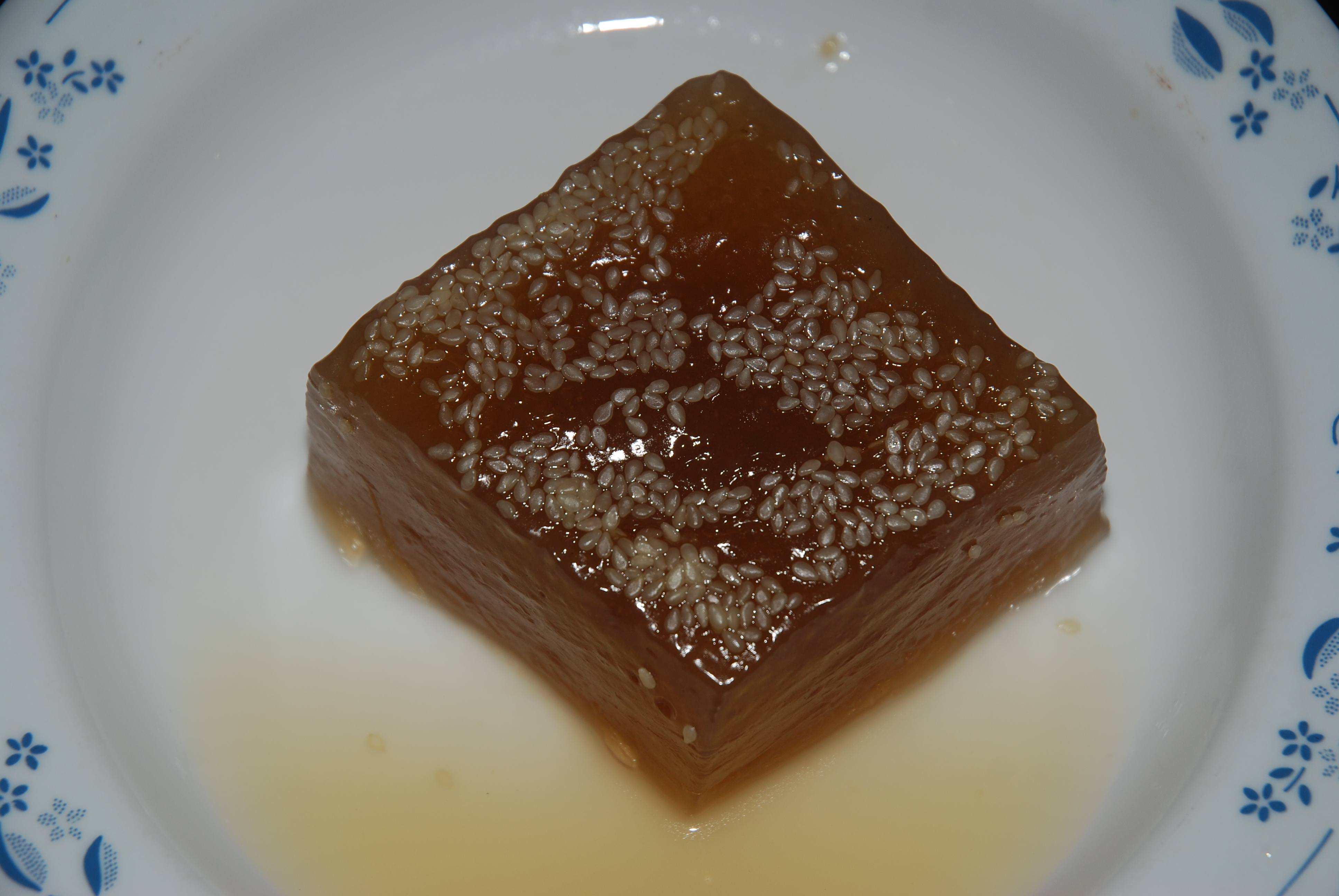 Water Chestnut Cake in Hokchiu/Fuzhou